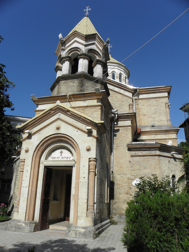 Armenian church in Batumi, Georgia.